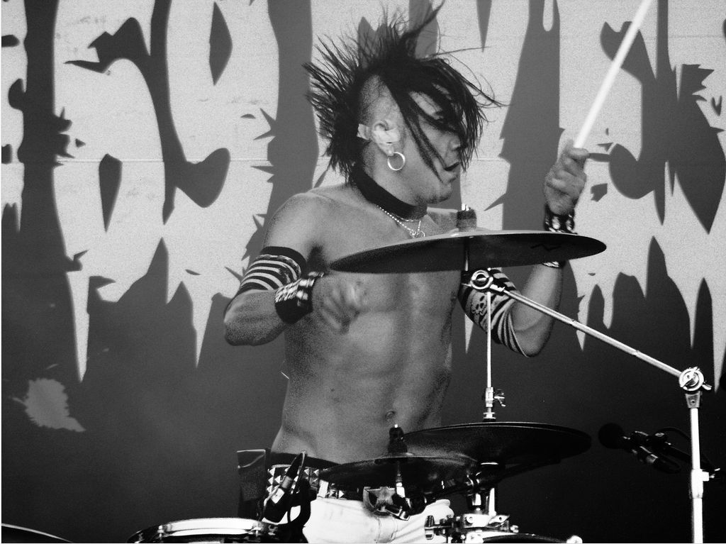 Jussi 69, finnish drummer